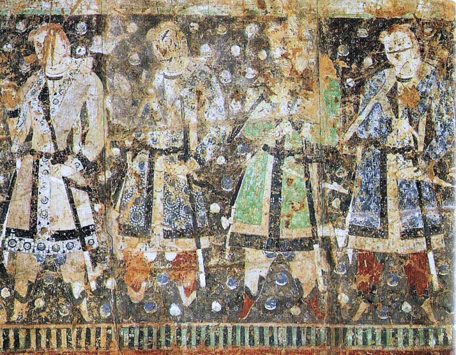 Wall painting of "Tocharian Princes" from Cave of the Sixteen Sword-Bearers (no. 8), Qizil, Tarim Basin, Xinjiang, China. Carbon 14 date: 432–538 AD. Original in Museum für Indische Kunst, Berlin. [1][2]